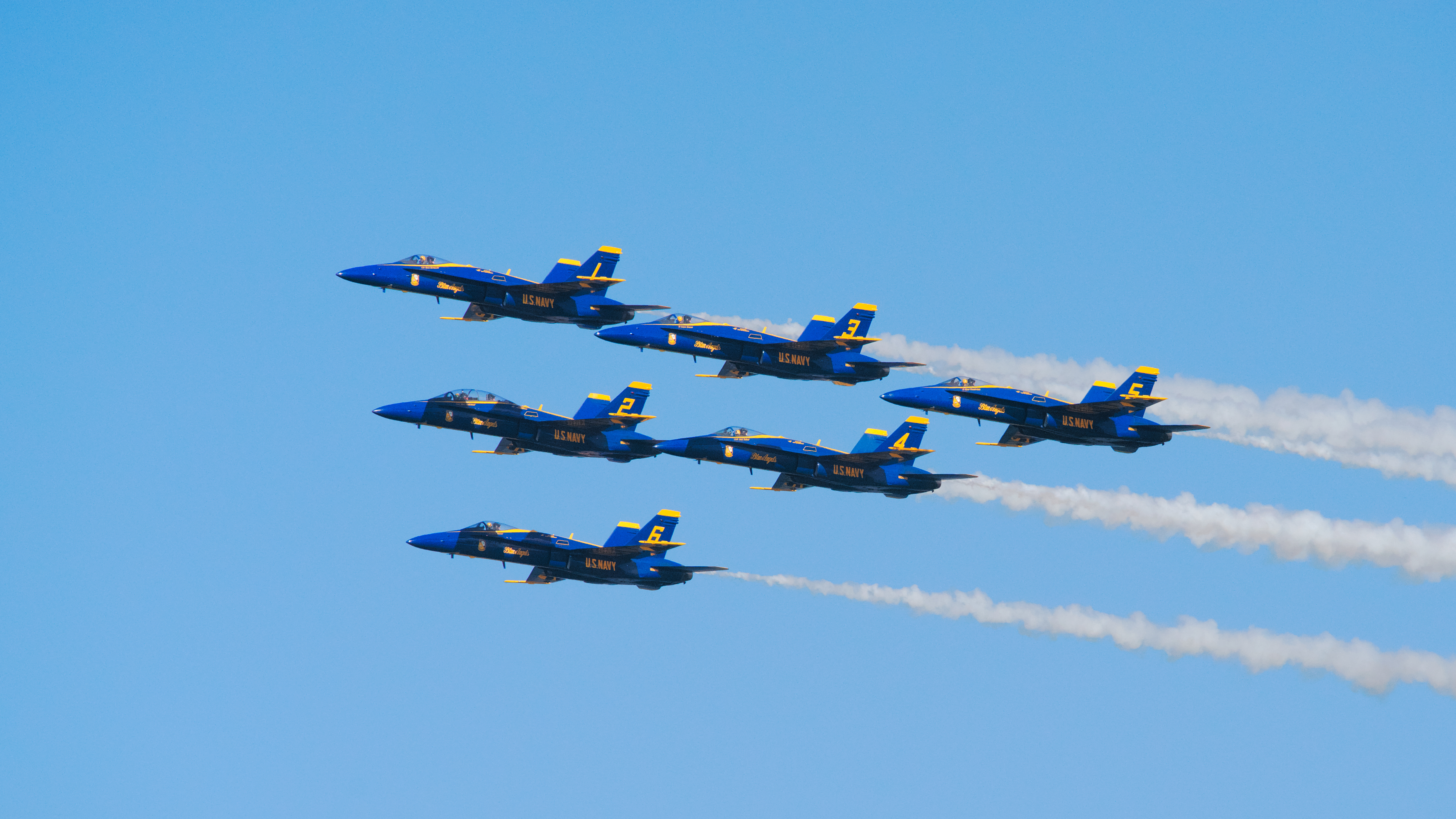 Blue Angels in delta formation at Fleet Week San Francisco.